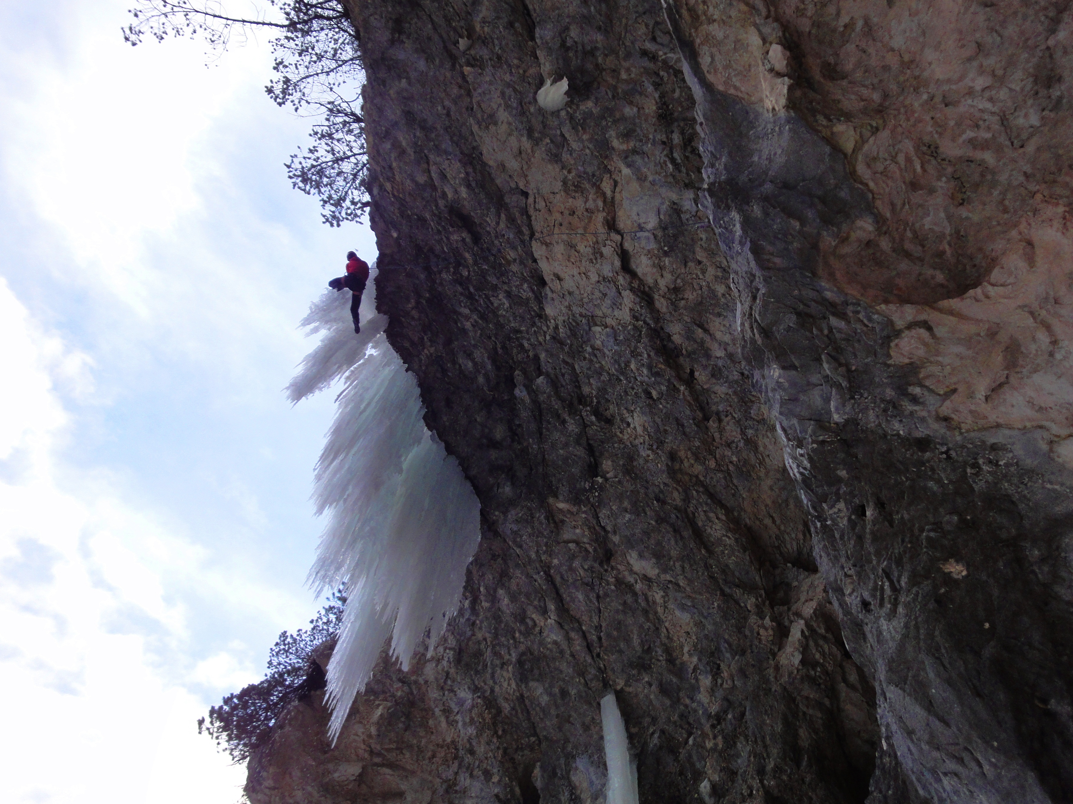 Danish climber Kristoffer Szilas tops out on "Fly in the wind" (M10+), Italy. Photo by: Ramon Marin.